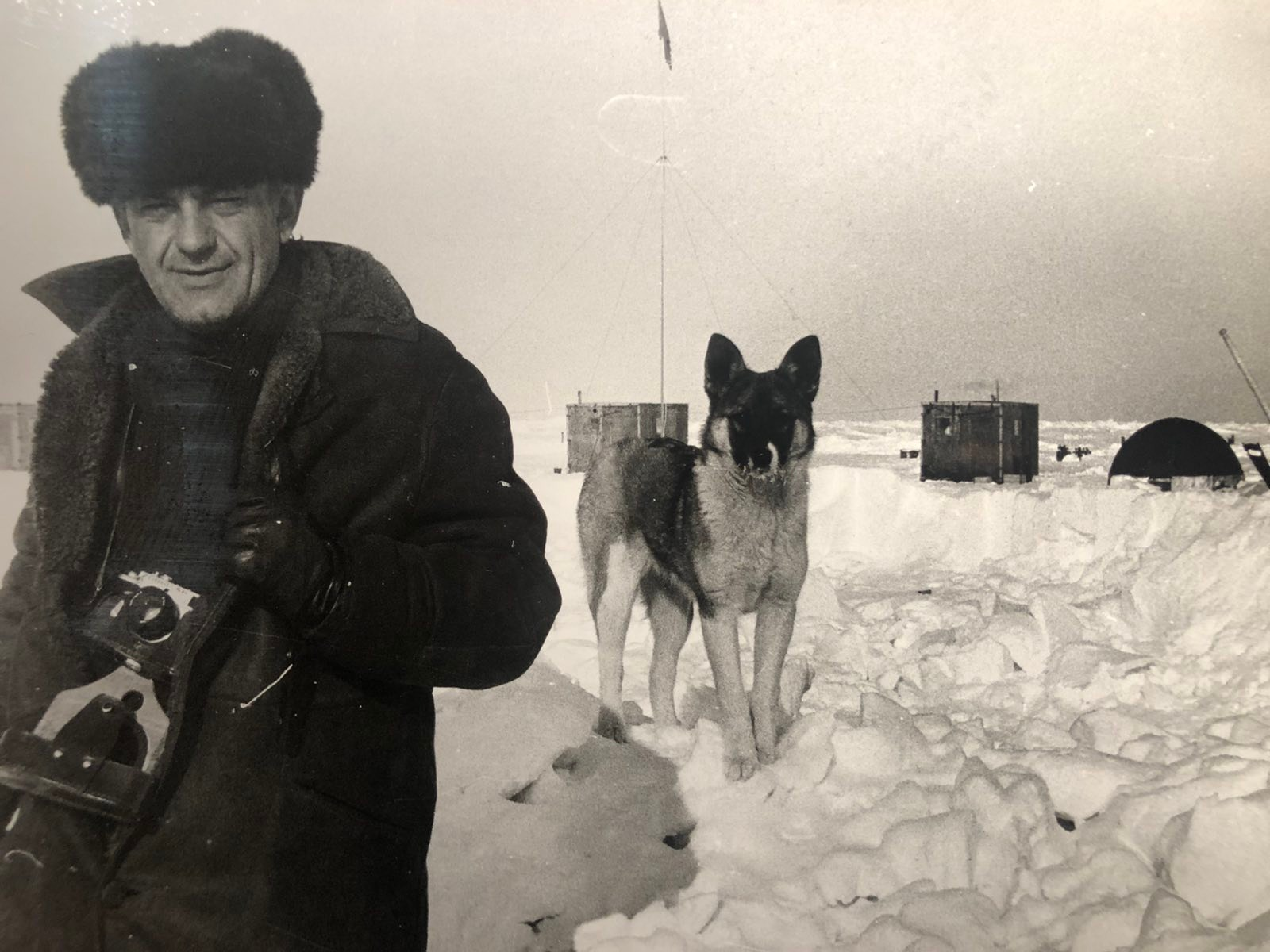 Mirko Bojic, Serbian journalist and reporter, on the SP-23 iceberg in the North Atlantic.